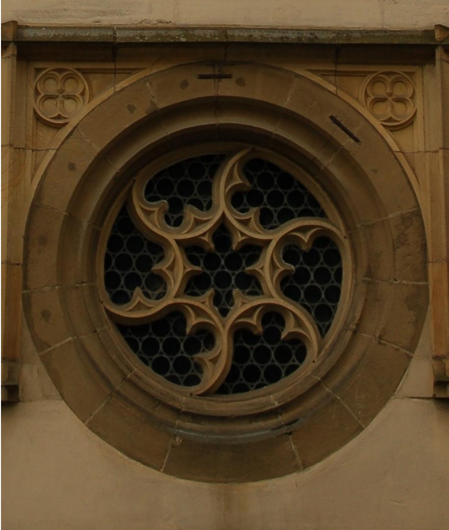 Bad Wimpfen - 007 - Stadtkirche, detail Variante 1.jpg